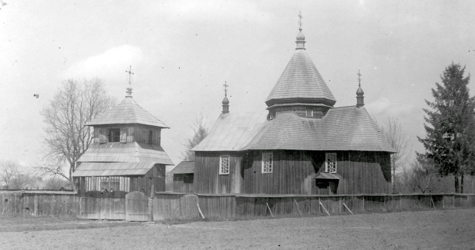 Churh in Igești, Storojineț, Ukraine (image from the archive of the Metropolitan of Moldavia, 1936, free of copyright)